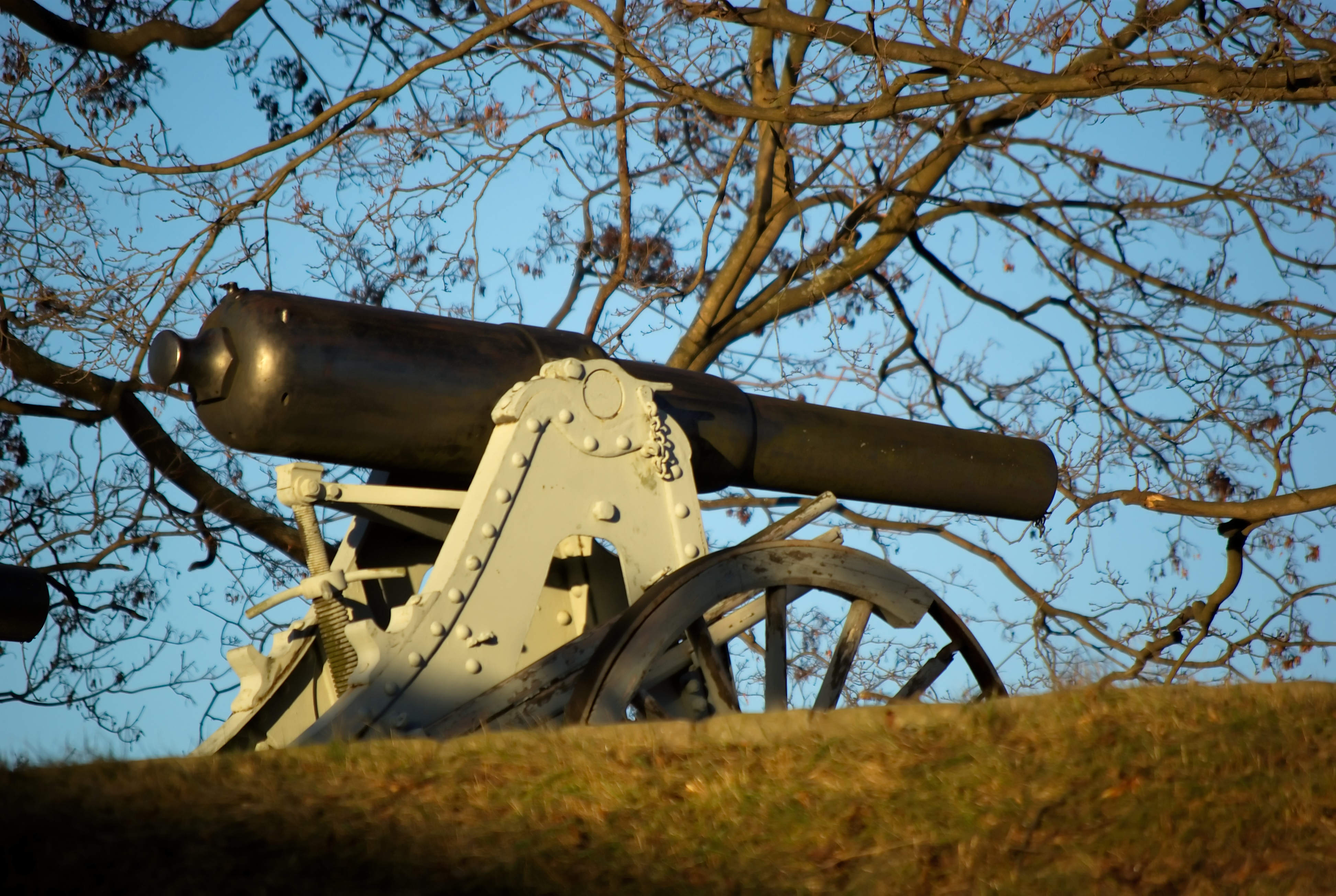 Cannon on Akershus festning